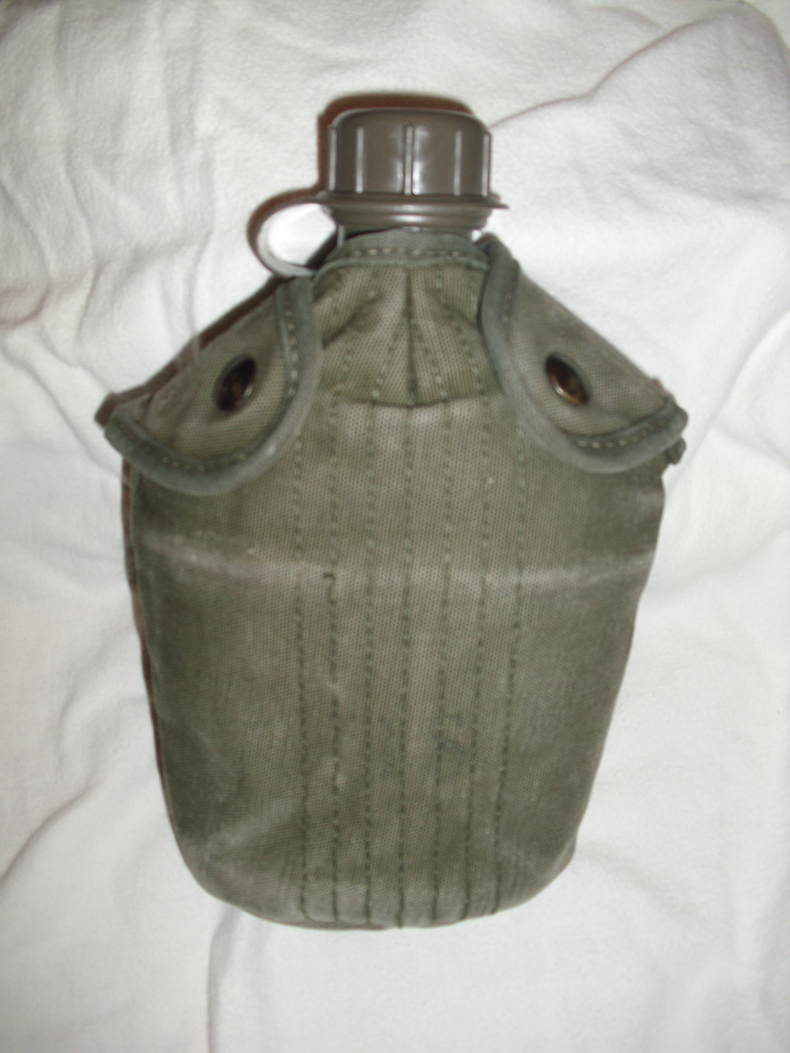 Cover, water canteen M1956